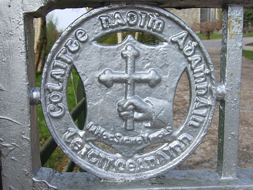 College Gate at Letterkenny, the largest town in County Donegal , Ulster, Ireland.